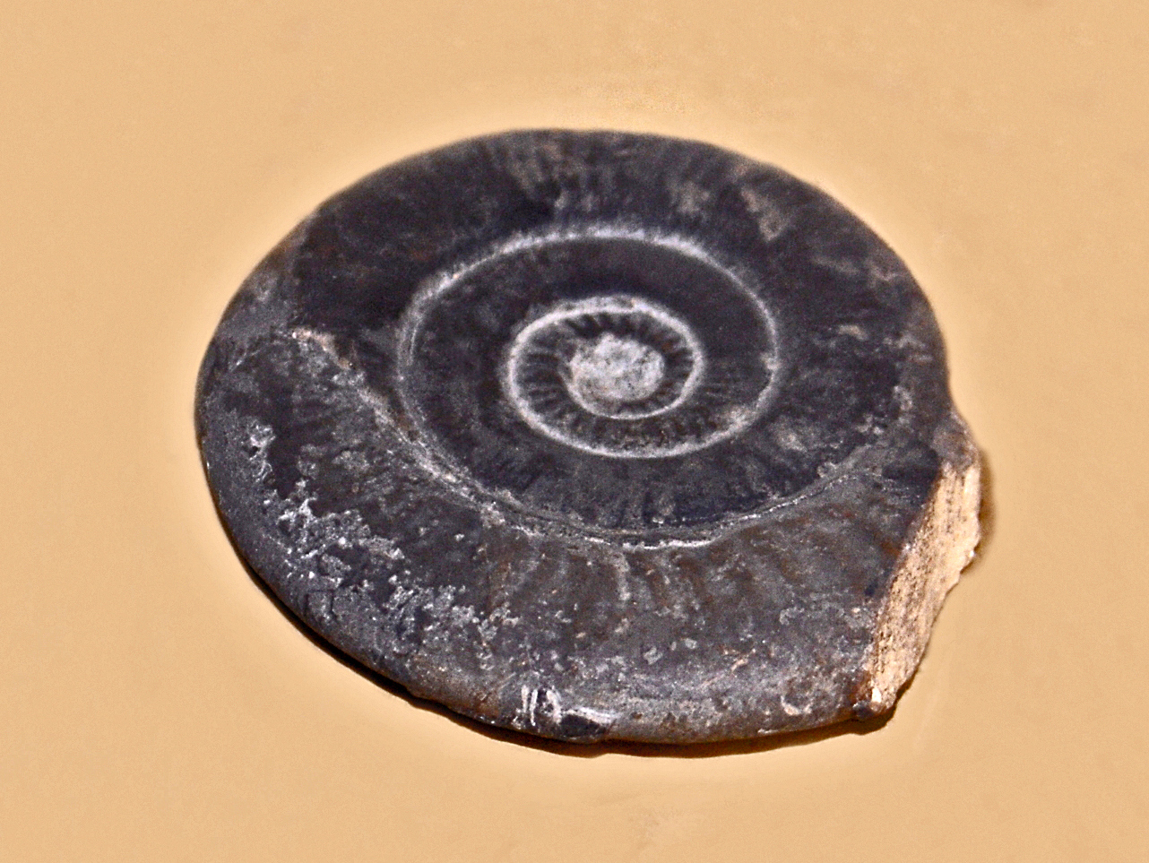 Fossil shells of Psiloceras planorbis from Germany, on display at Gallery of Paleontology and Comparative Anatomy, Paris.